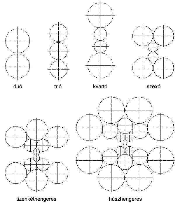 Different roll arrangements